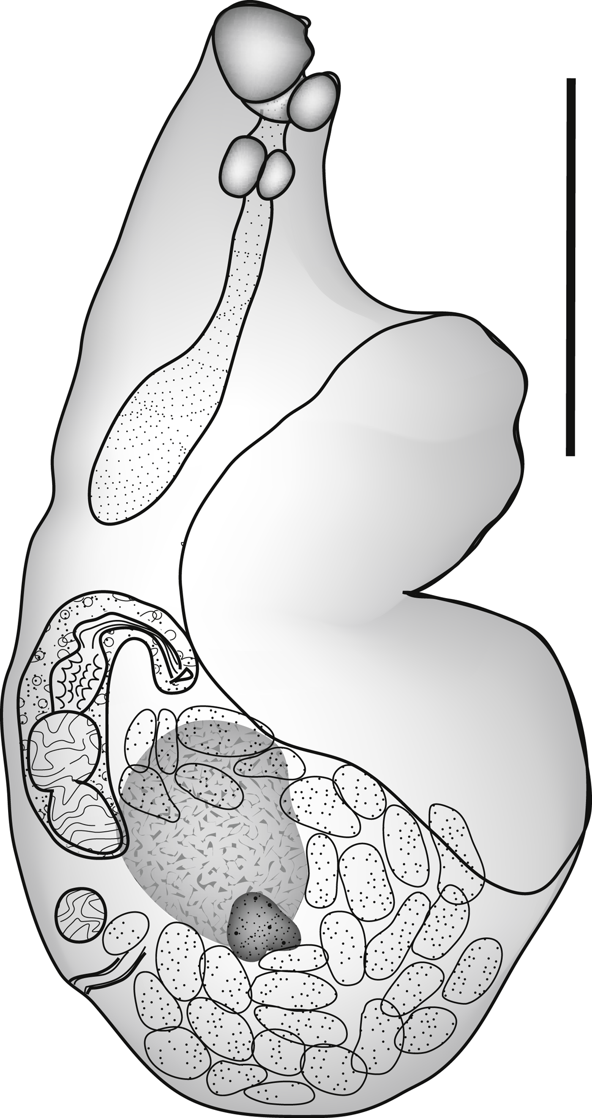 Figure 2: Parvipyrum acanthuri Pritchard, 1963. Lateral view. Scale bar 200 µm.